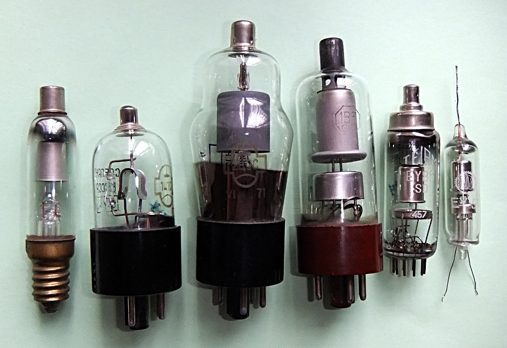 High voltage vacuum diodes